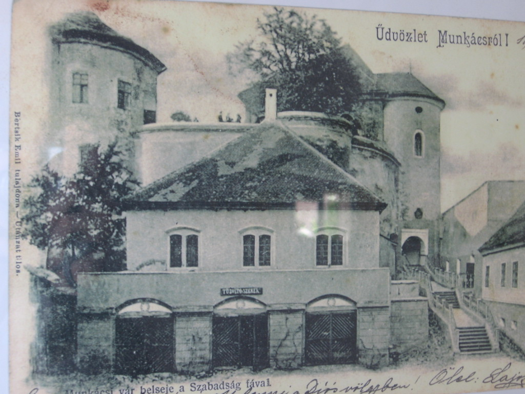 munkachevo castle=palanok castle